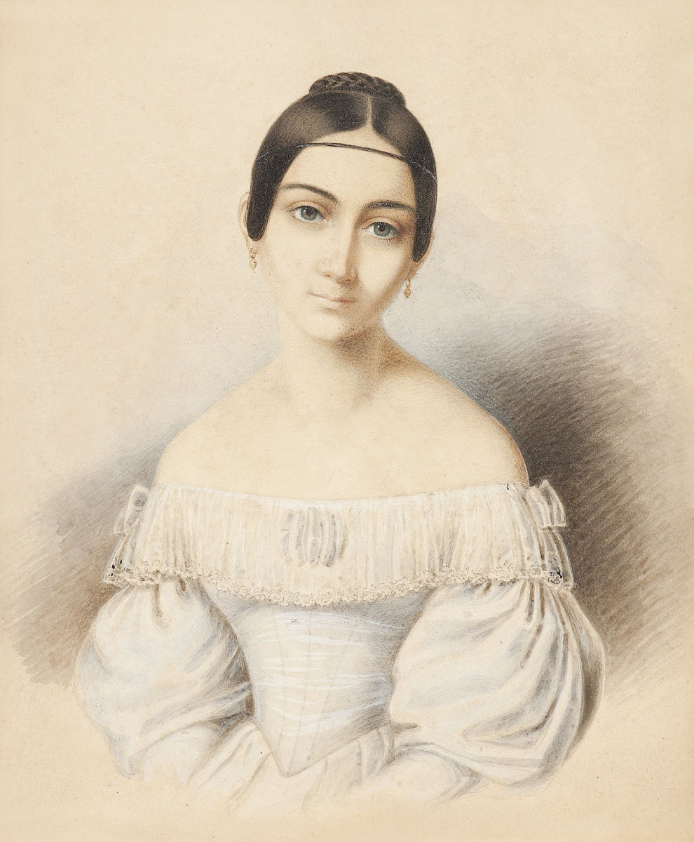 Therese, Princess of Hohenlohe-Waldenburg, Watercolour over pencil on brownish wove paper